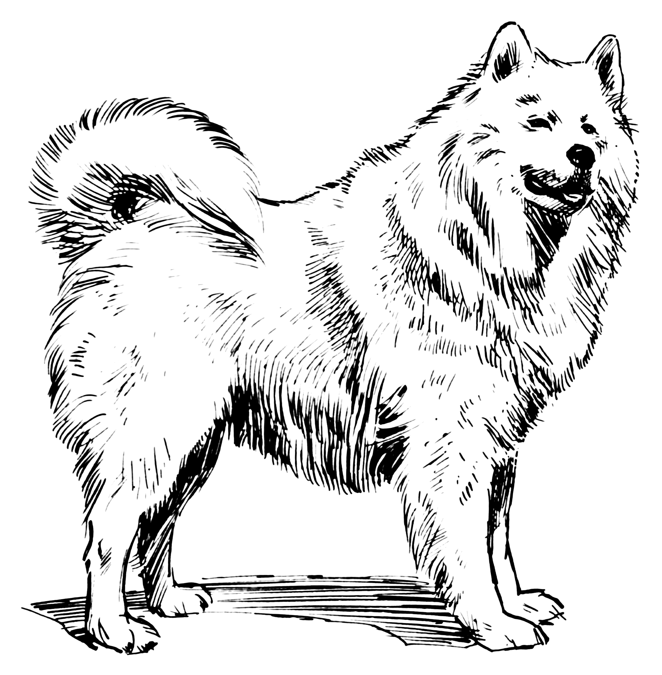 Line art drawing of a samoyed dog.